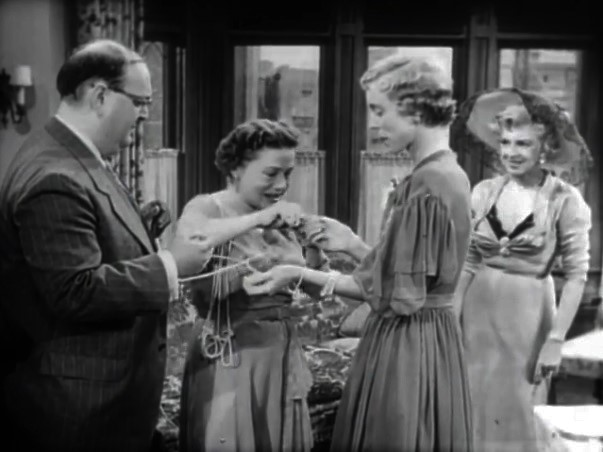 L. to R. : Zero Mostel, Thelma Ritter, Nancy Kulp & Dennie Moore, in The Model and the Marriage Broker - trailer (cropped screenshot)